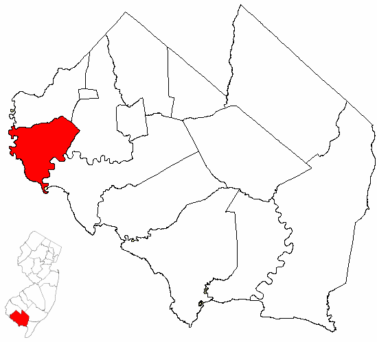 Map of Cumberland County highlighting Greenwich Township